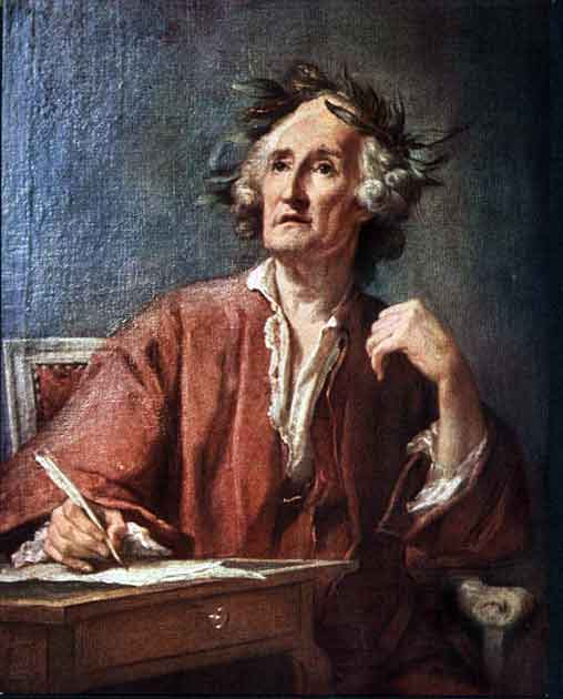 Depicted person: Lebrun-Pindare – according to Rubin (1980), a former hypothesis was that it was a poet or Jean-Philippe Rameau